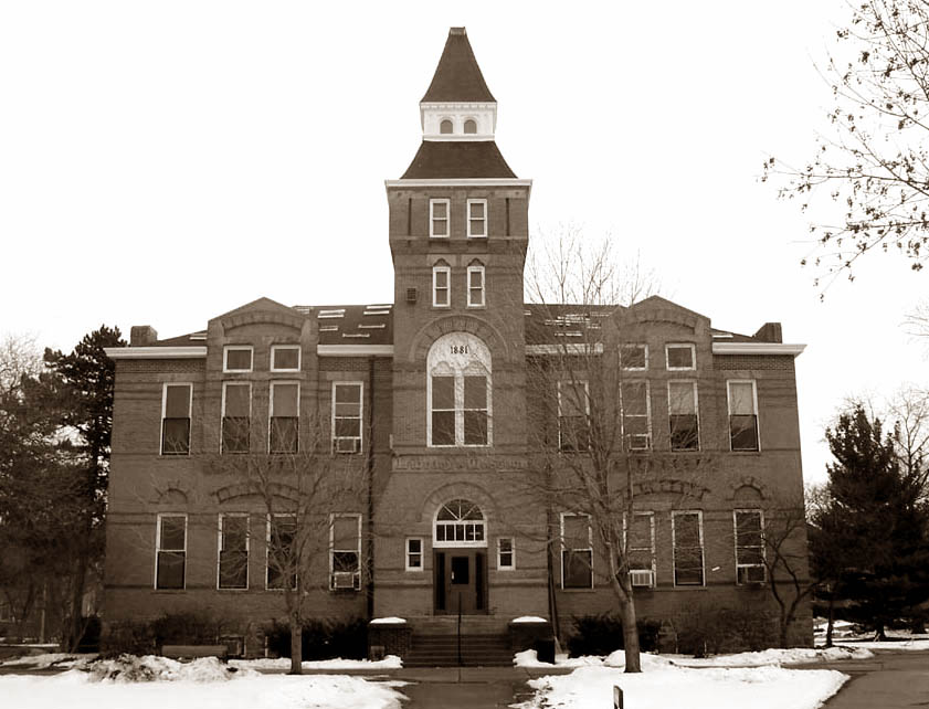 Photo self-taken and sepiatoned.